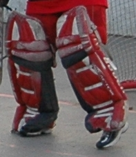 Hockey kickers